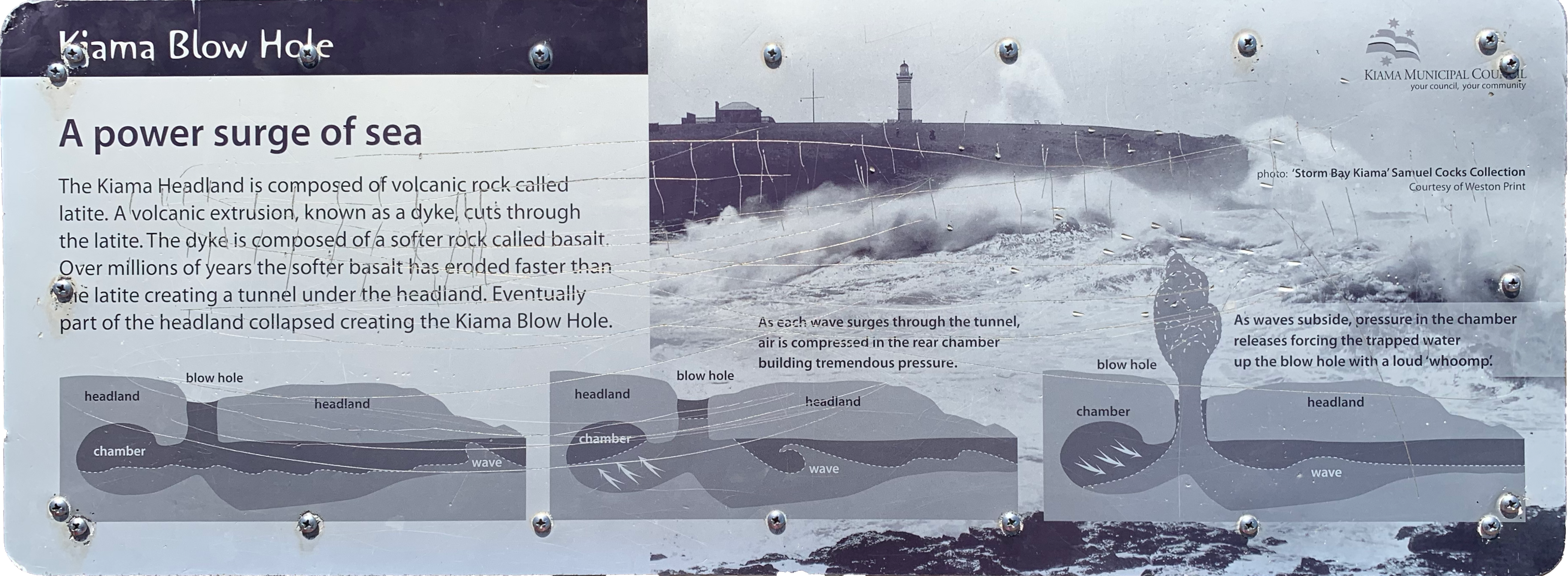 Cropped photo of informational placard at the blowhole in Kiama, New South Wales